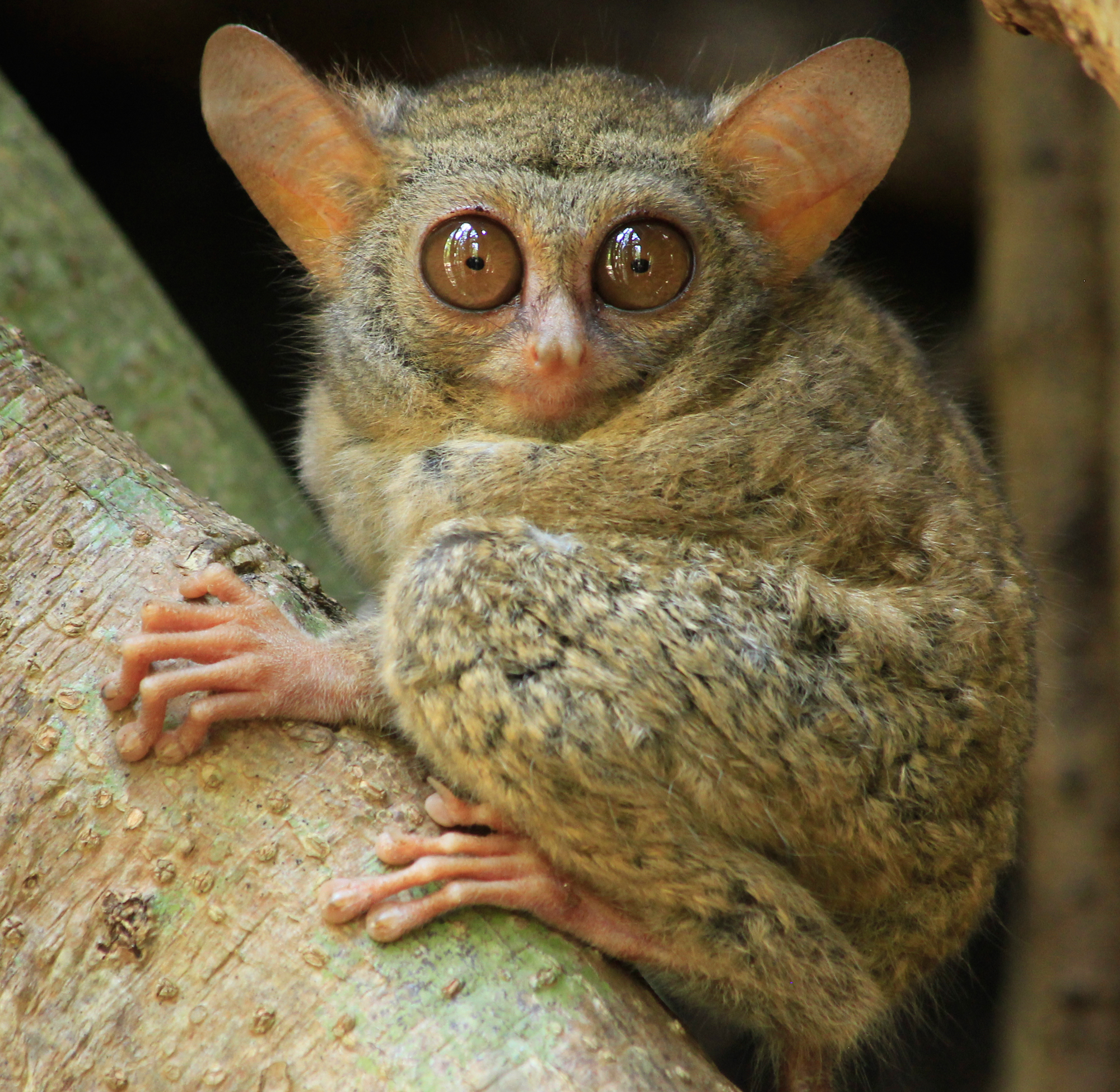 Tarsius spectrumgurskyae is endemic tarsius live in sulawesi island